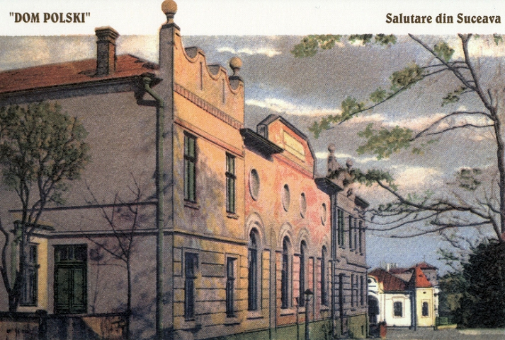 The Polish House in Suceava.